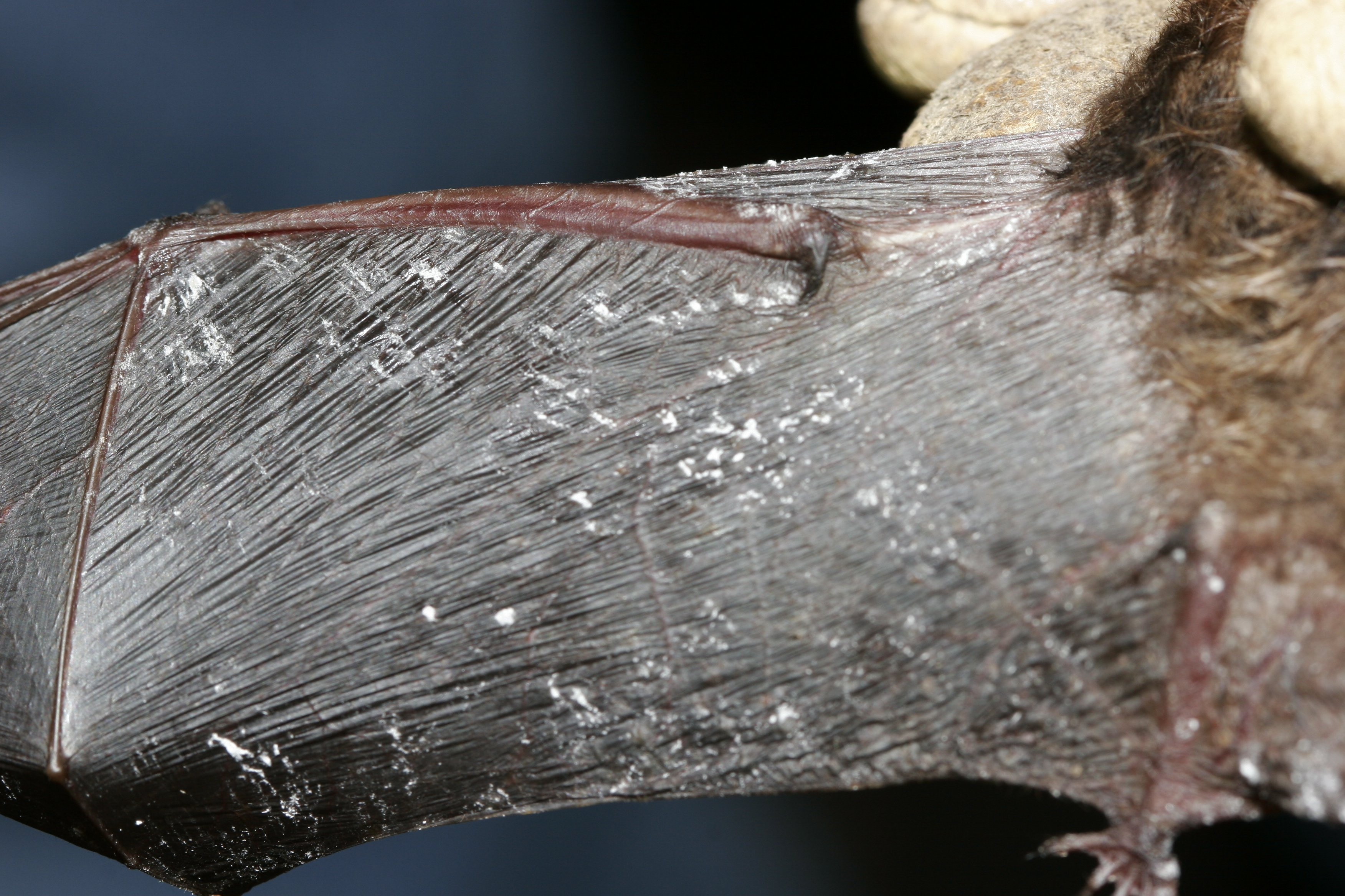 Credit: Photo courtesy Ryan von Linden/New York Department of Environmental Conservation Image size: 3504p (49 in.) W x 2336p (32 in.) H, 72 ppi, 3.1 MB